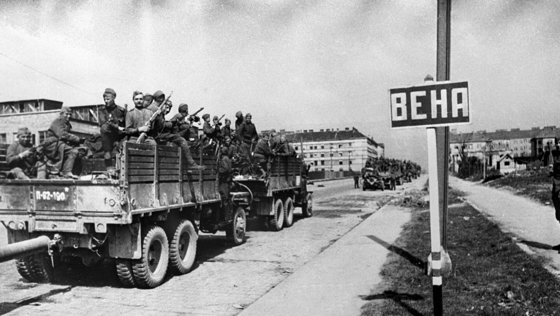 Vienna Operations Česky: Vídeňská operace